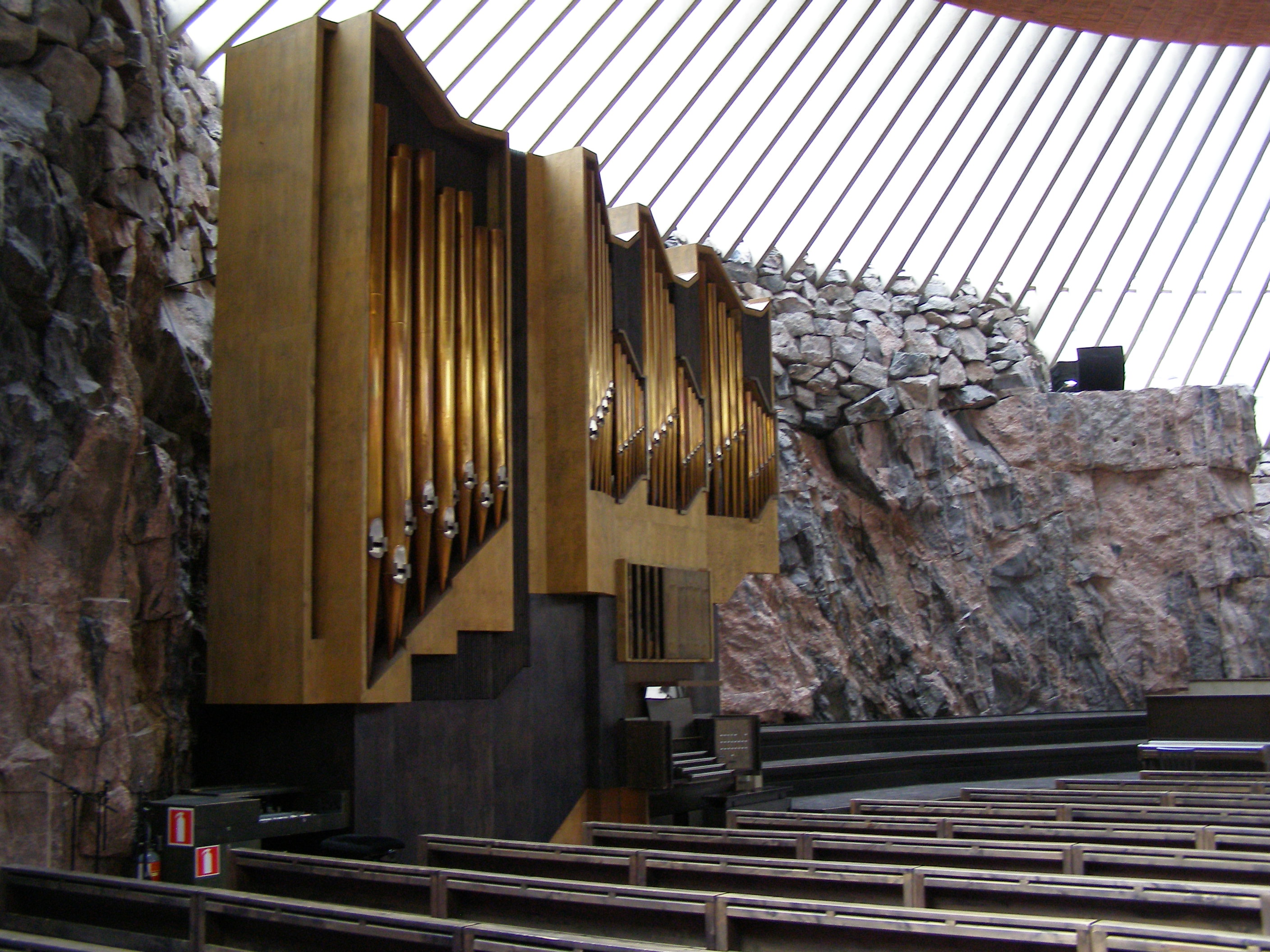 Temppeliaukion church, Helsinki, Finland.